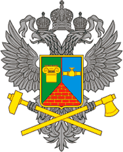 Emblem of Ministry of Utillities and Housing